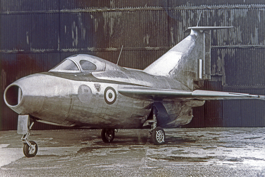 Fairey FD-1 Delto One VX350 at Manchester (Ringway) Airport in May 1950